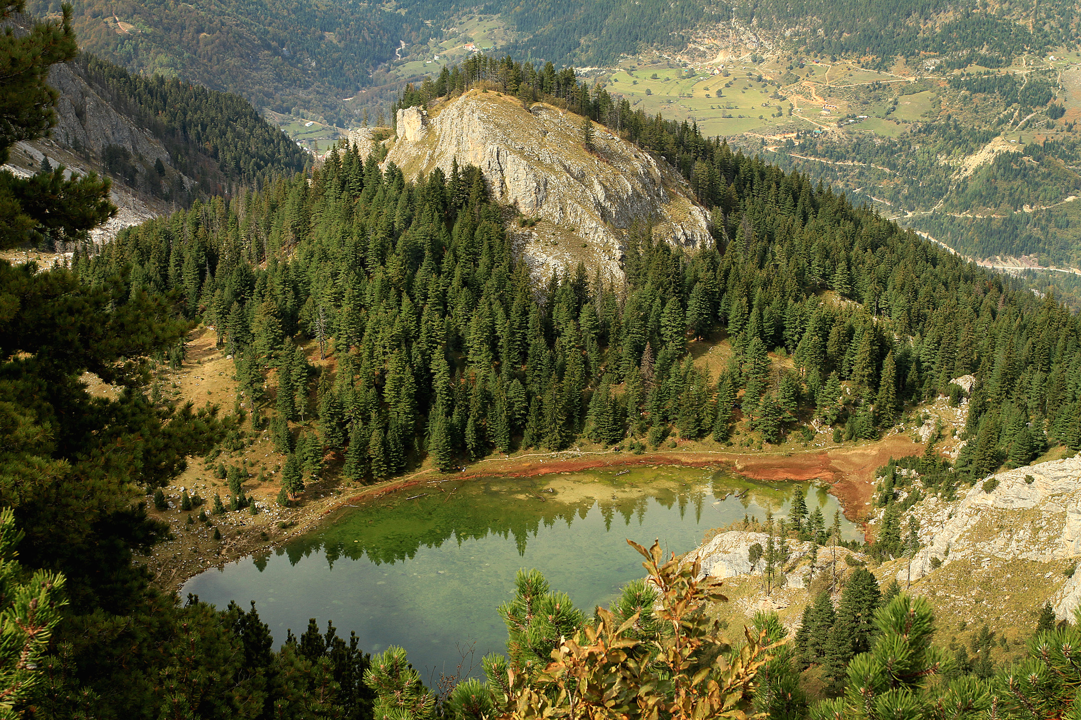 The view of bigger Liqenat lake